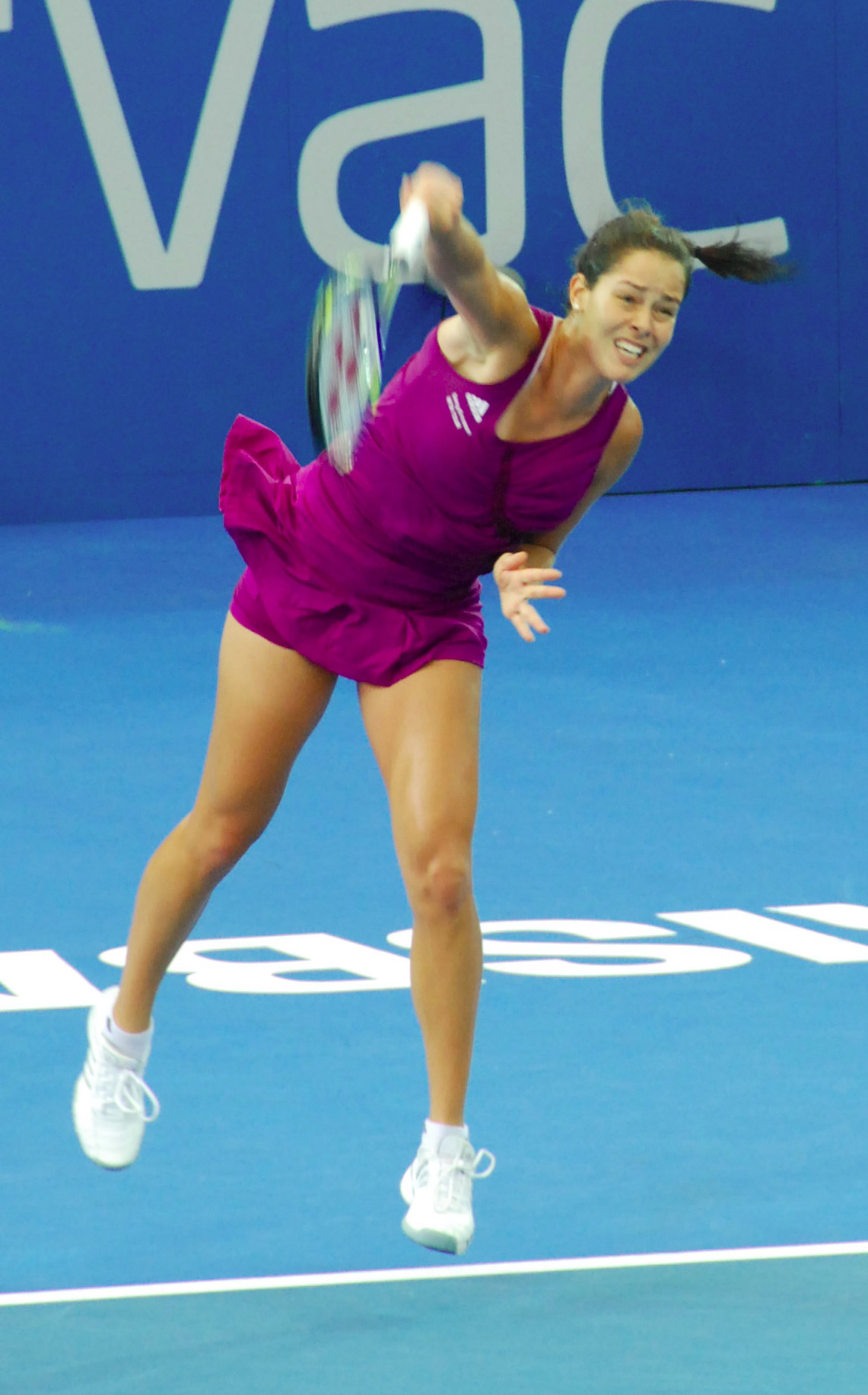 Ana Ivanović at 2009 Brisbane International, Brisbane, Australia.